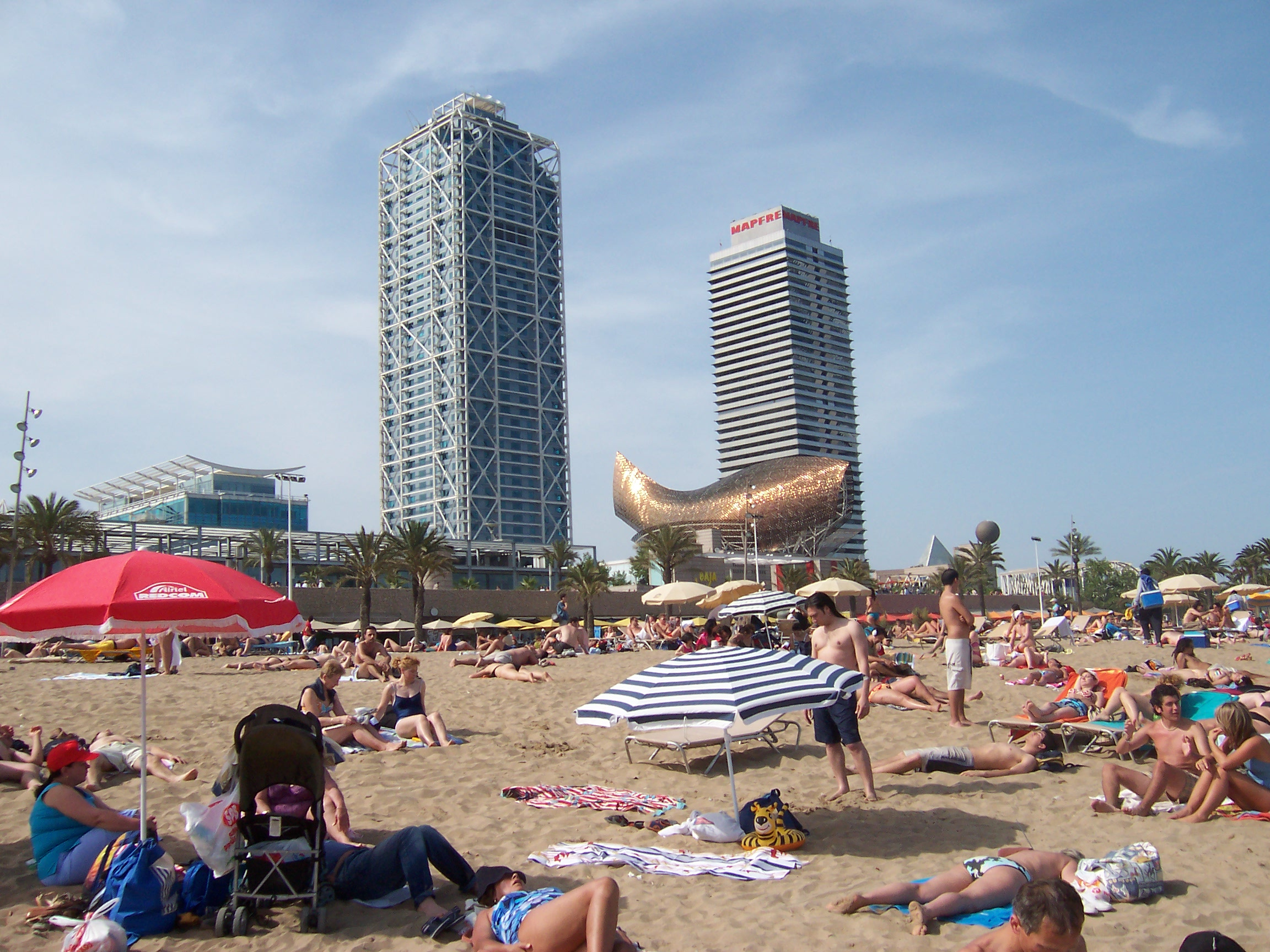 Barceloneta Beach, in Barcelona.